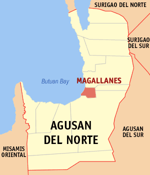 Map of the Agusan del Norte showing the location of Magallanes